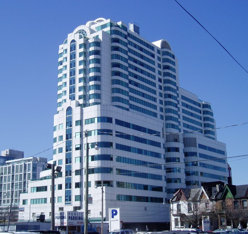 Holiday Inn, Toronto